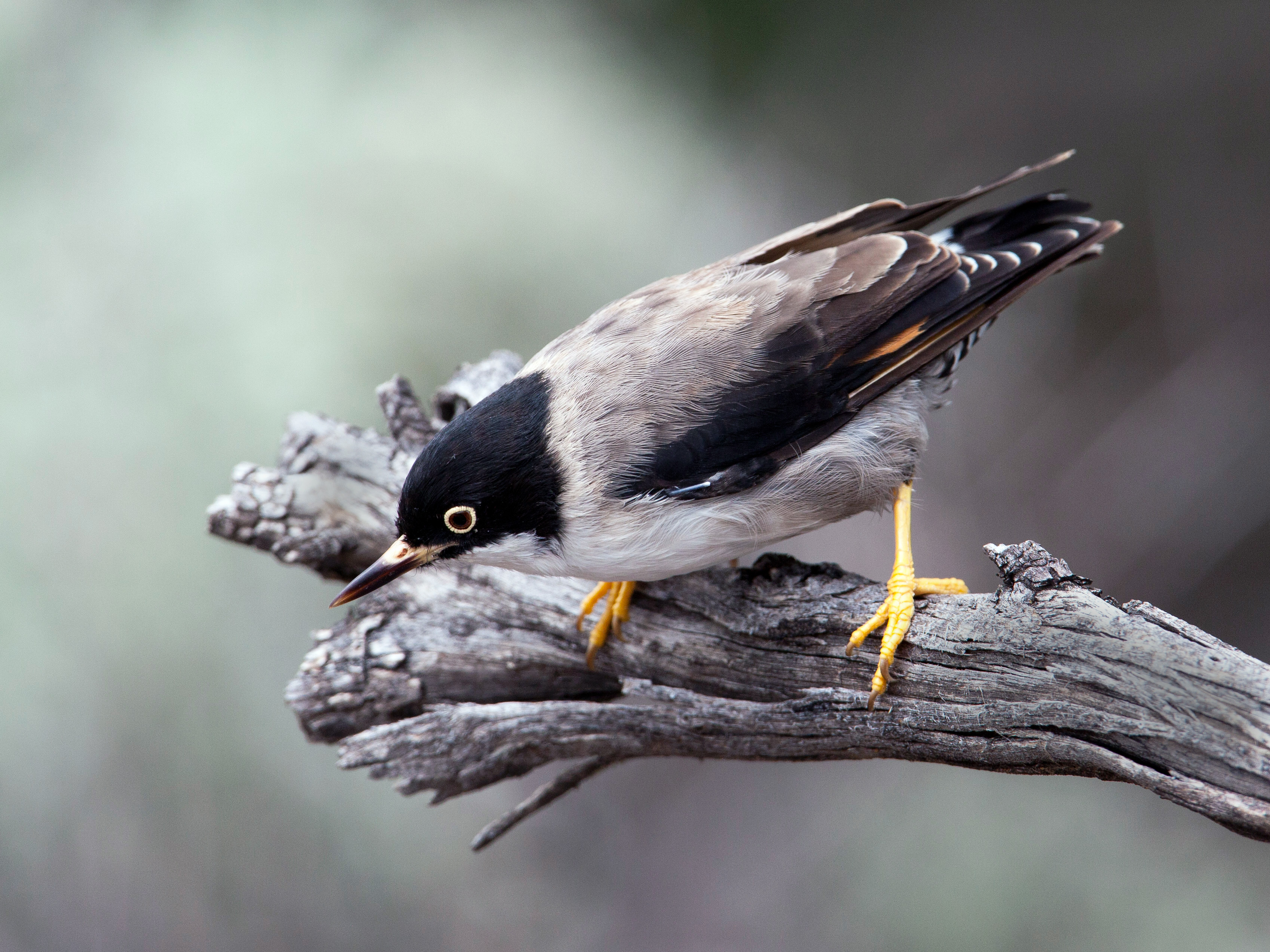 The female, showing the black crown and cheeks. Evidently the female has a shorter beak than the male!